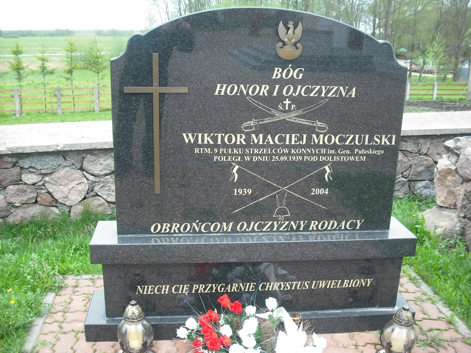 Headstone commemorating the place Moczulski was killed in combat, Dolistowa, Poland